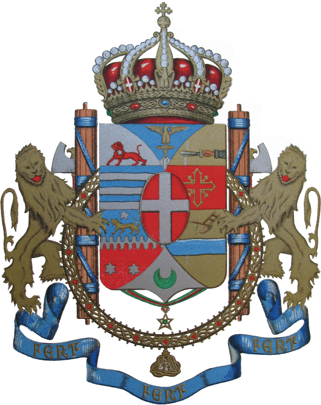 coat of arms of Italian East Africa.